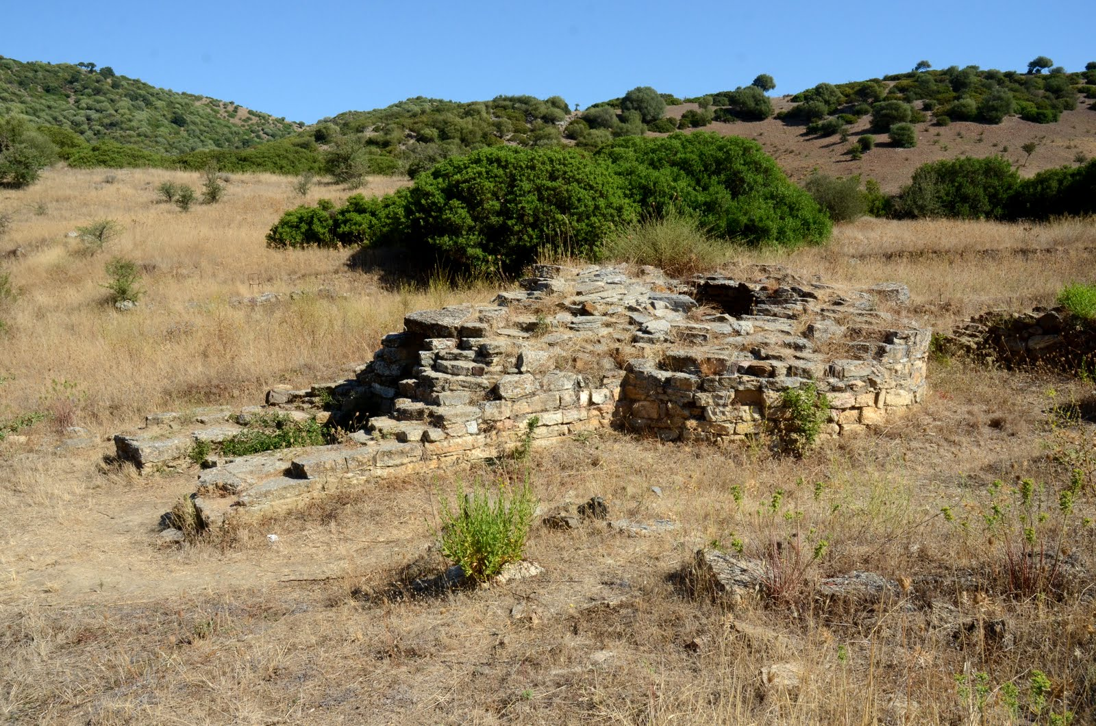 Funtana Coberta Sacred well: external structure - Ballao - Sardinia -Italy